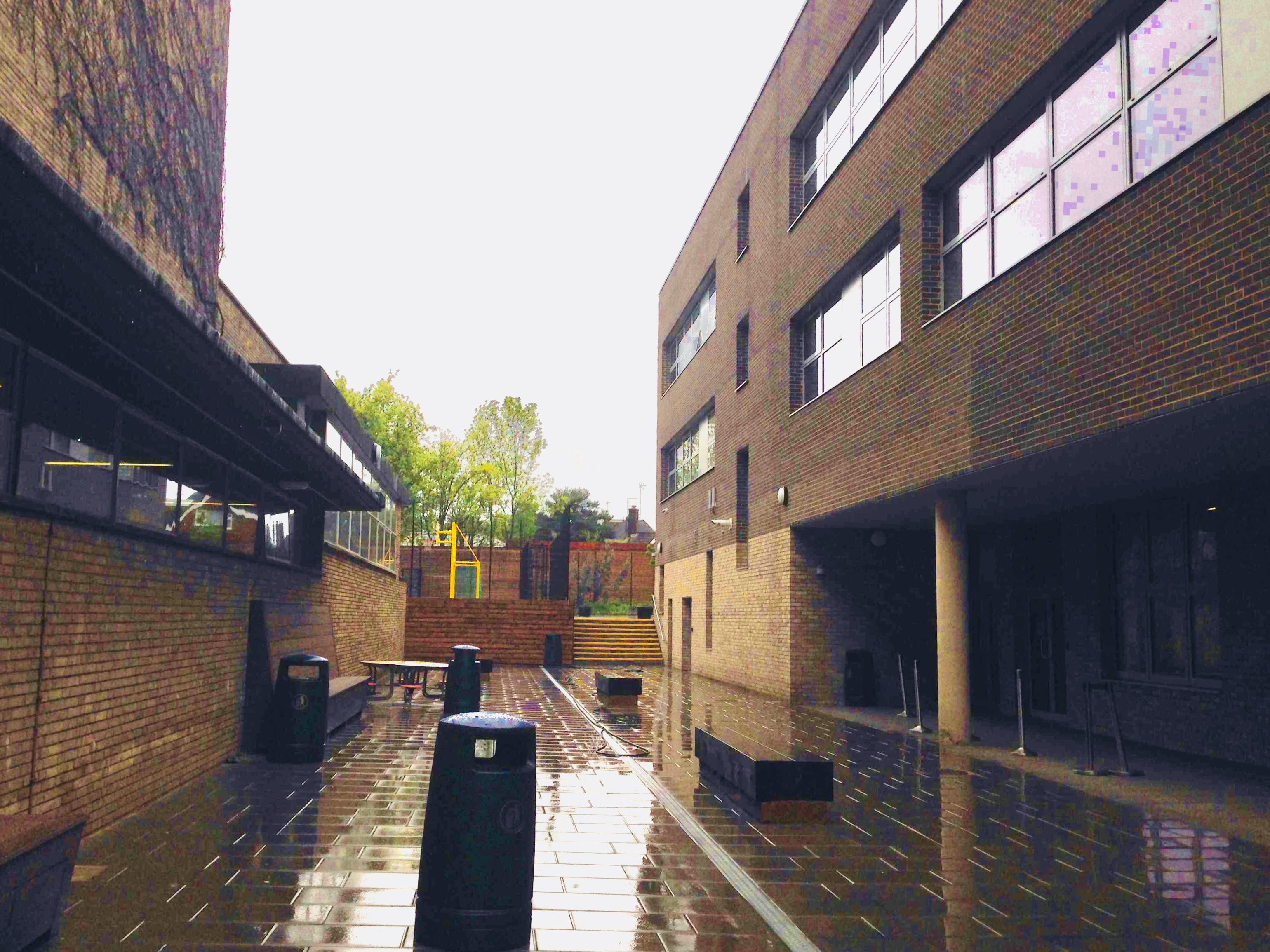 This is the place where students of high school pass time during their free time